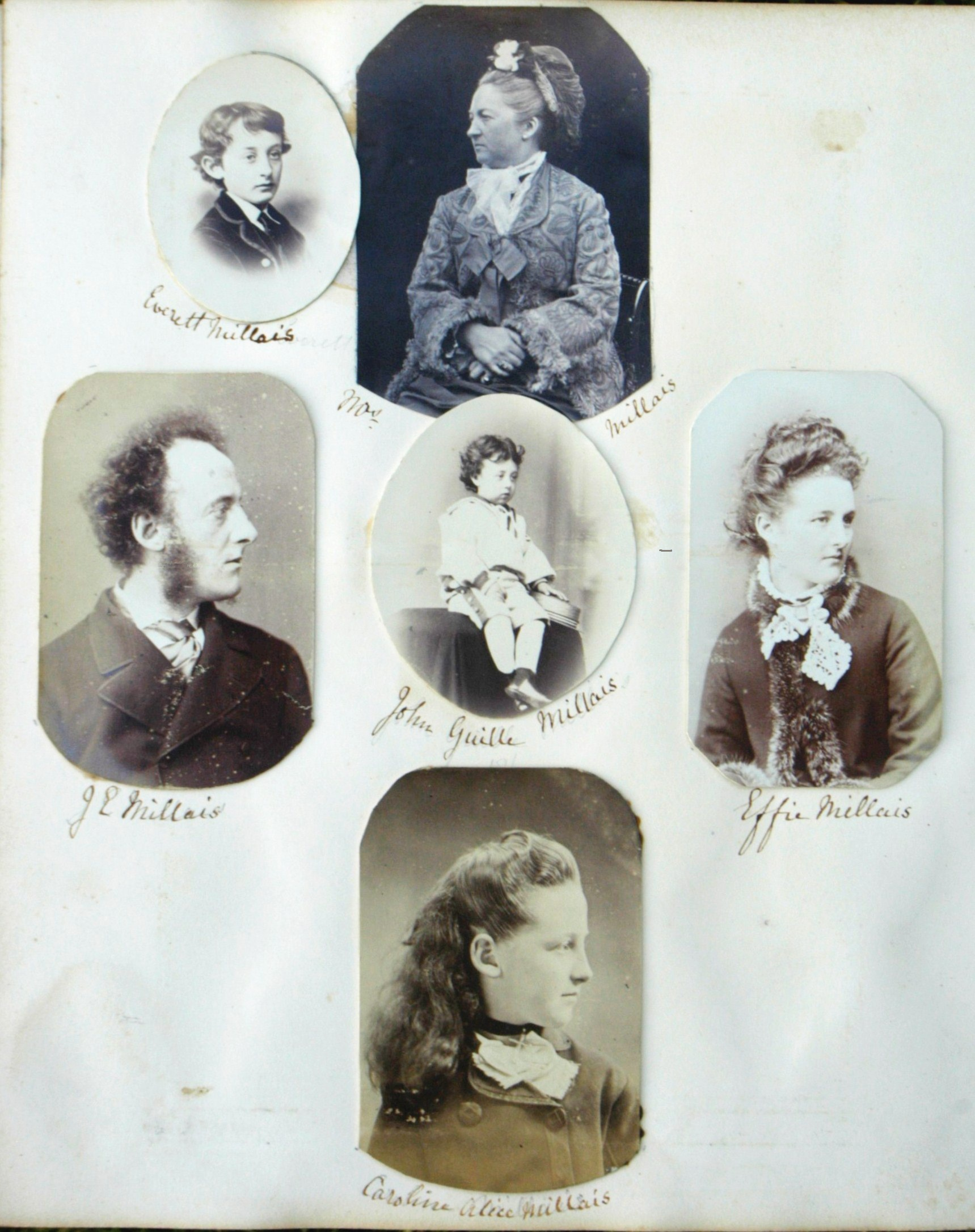 My photo (Rodolph (talk) 23:04, 11 August 2013 (UTC)) of a photo assemblage of Millais' family circa 1870 (from an album made up by Emily Fane De Salis (died 1896)). The photo of Millais on the left is by Elliott & Fry (Joseph John Elliott (1835-1903) and Clarence Edmund Fry (1840-1897)).